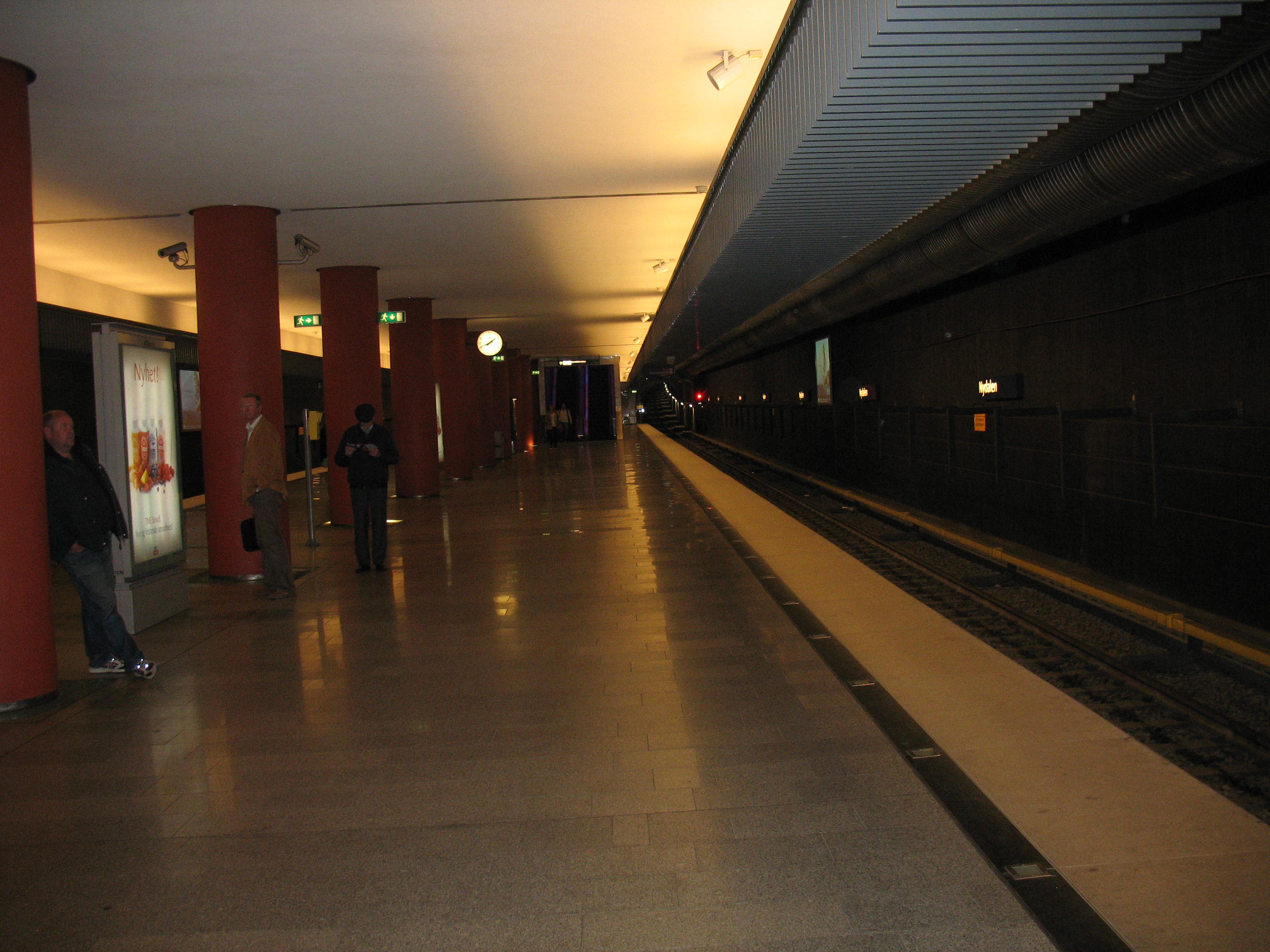 Nydalen is a station on the Oslo T-bane.